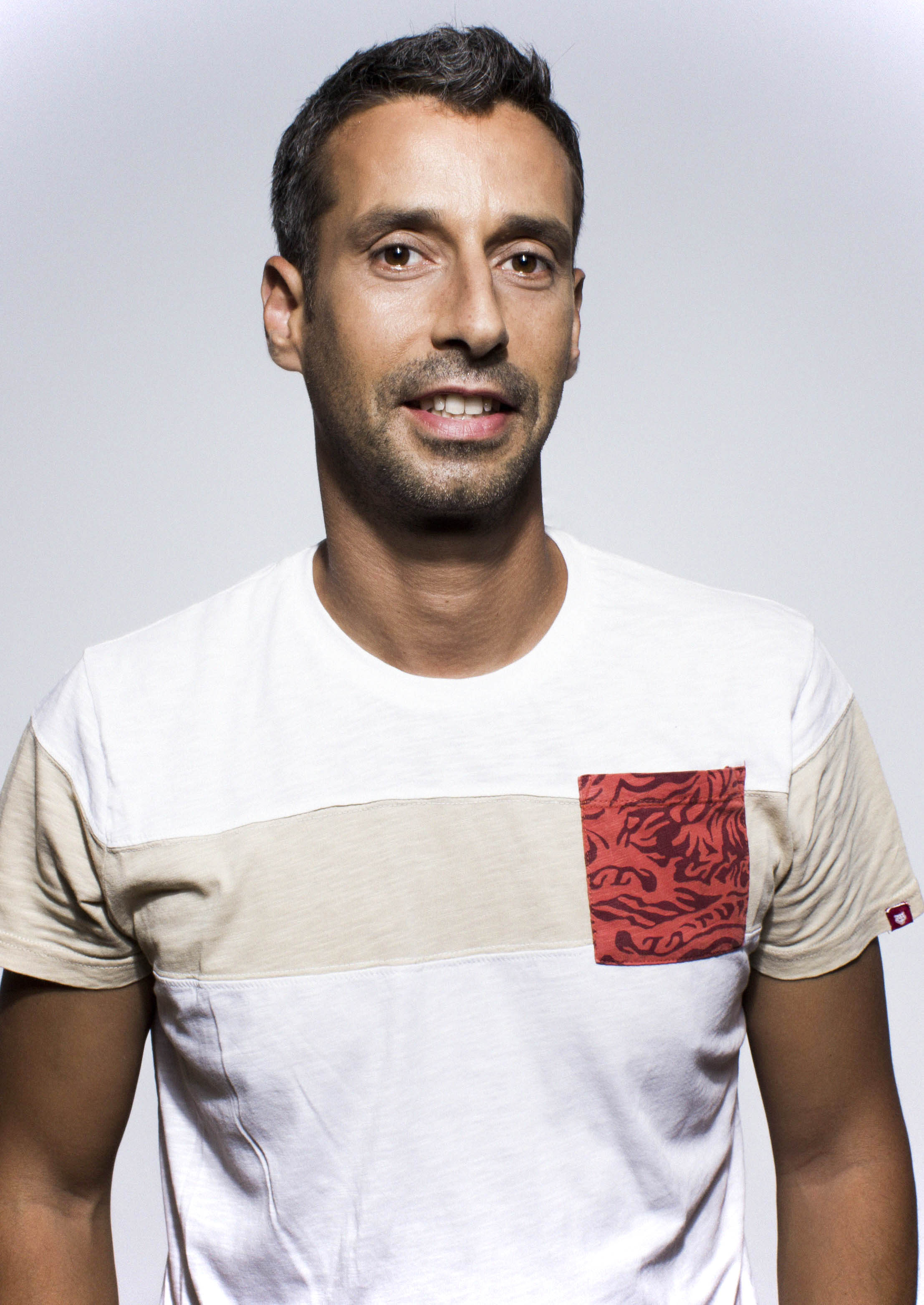 Portait of Pedro Cazanova 2015